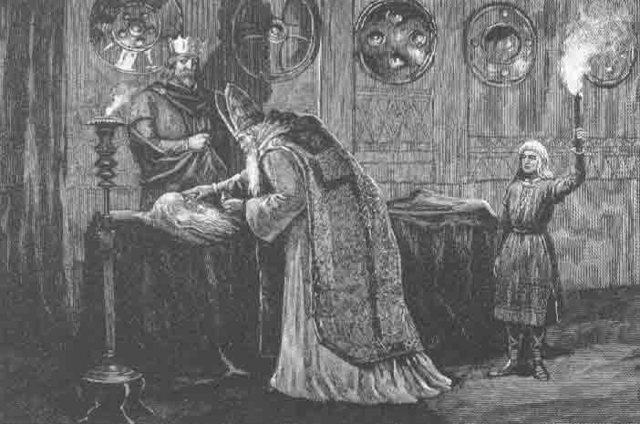 The death of Nornagest, by Gunnar Vidar Forssell